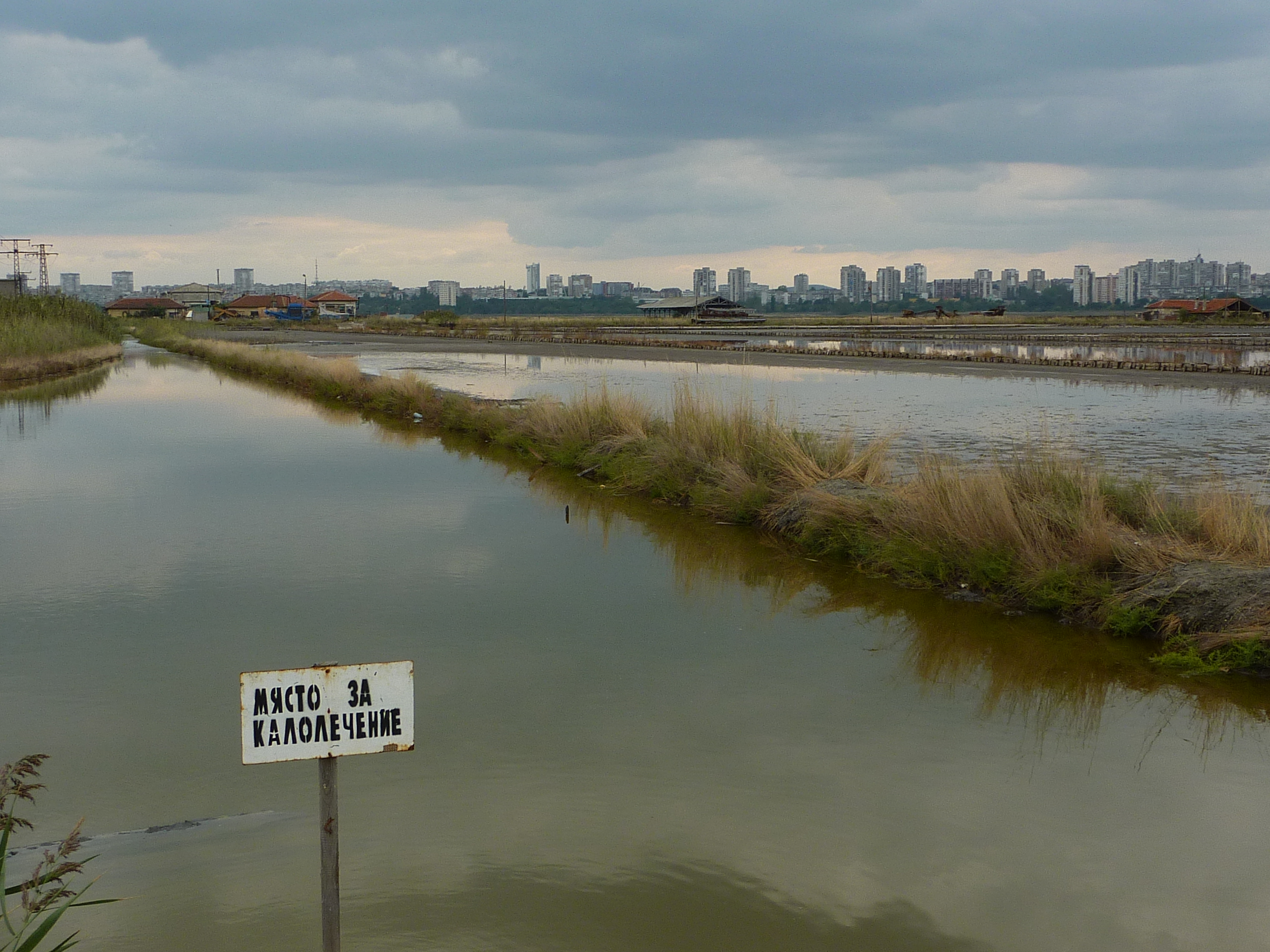 Lake Atanasovsko Reserve, a mud bathing site near Burgas